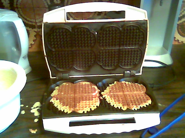 done dual waffles